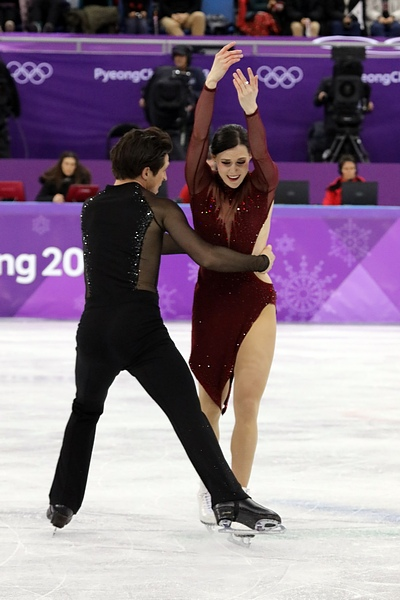 Tessa Virtue and Scott Moir at the 2018 Winter Olympic Games in PyeongChang